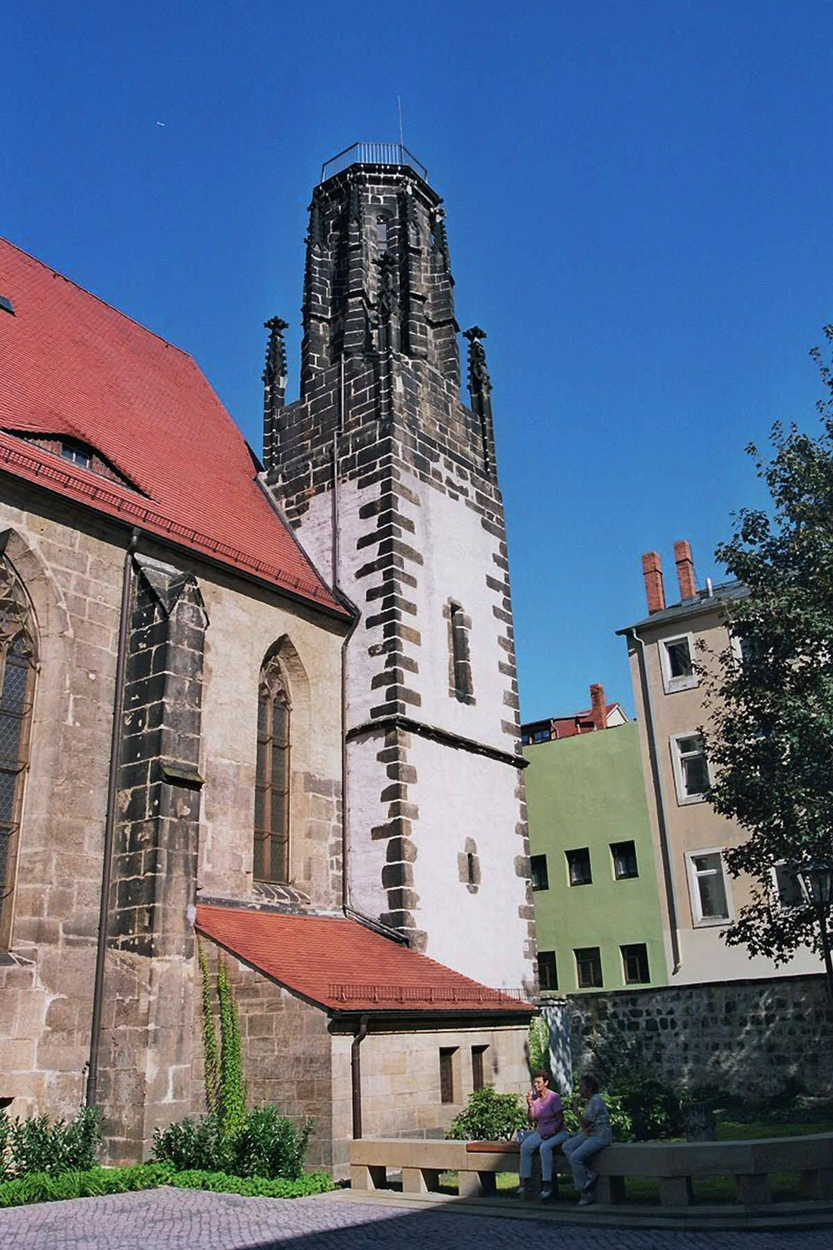 Pirna: The minster "St. Heinrich".